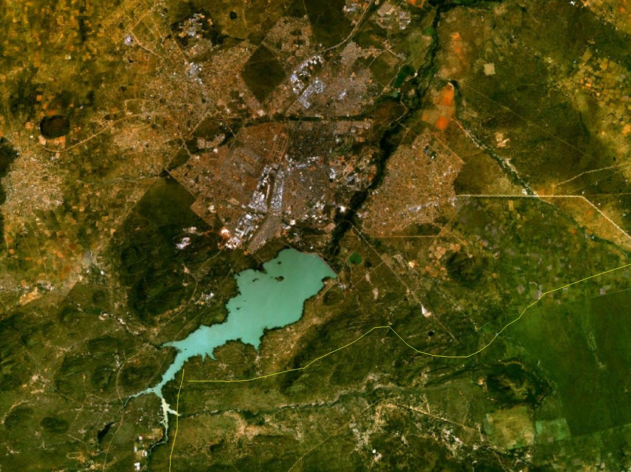 Gaborone, Botswana. Satellite view.